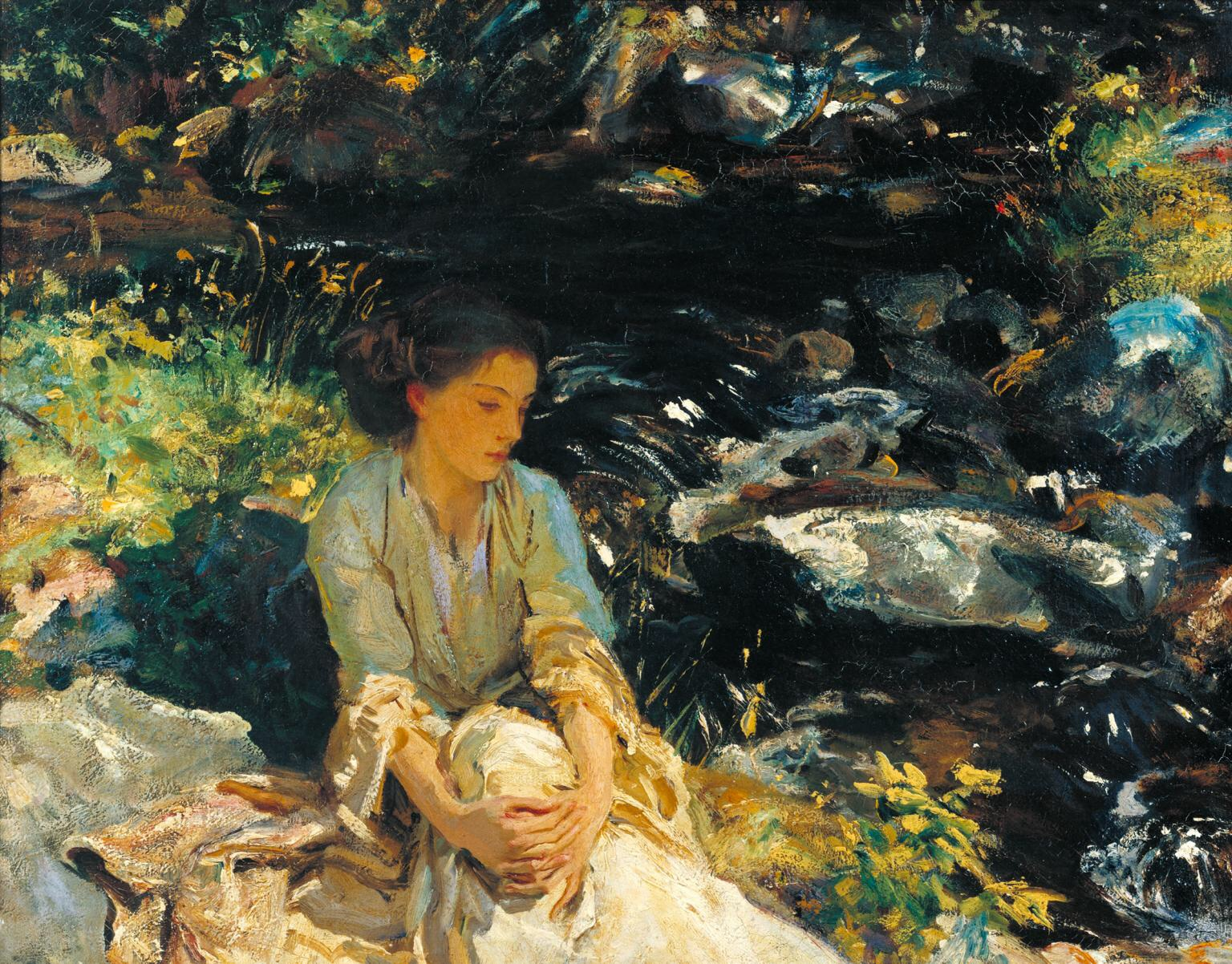 The Black Brook (Rose-Marie Osmond)